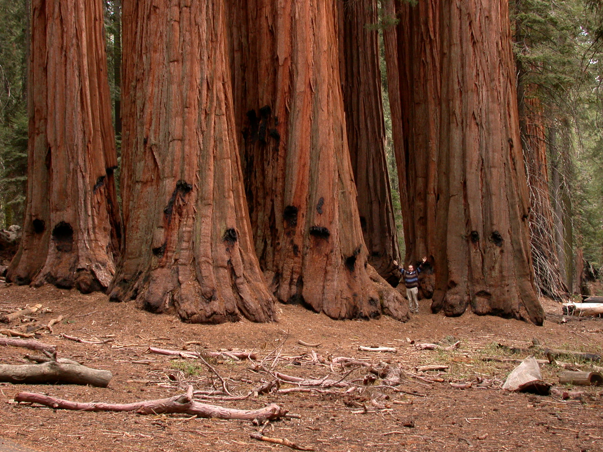 The House Group, group of monumental giant sequoias in the Giant Forest grove, Sequoia National Park, California.